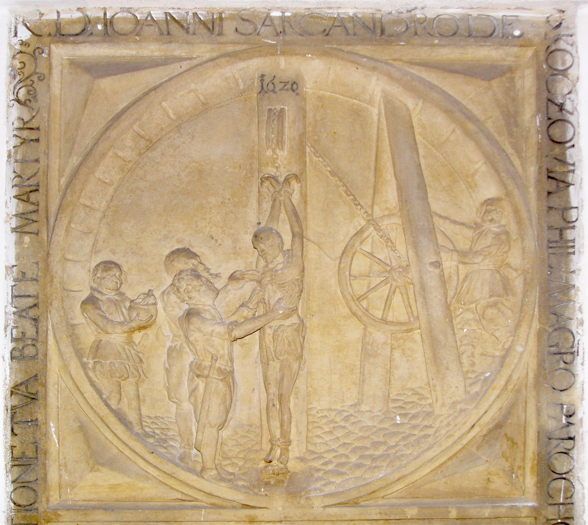 Detail of torture of John Sarkander at epitaph in St. Jan Sarkander chapel (Sarkandrova kaple) in Olomouc (Czech Republic).